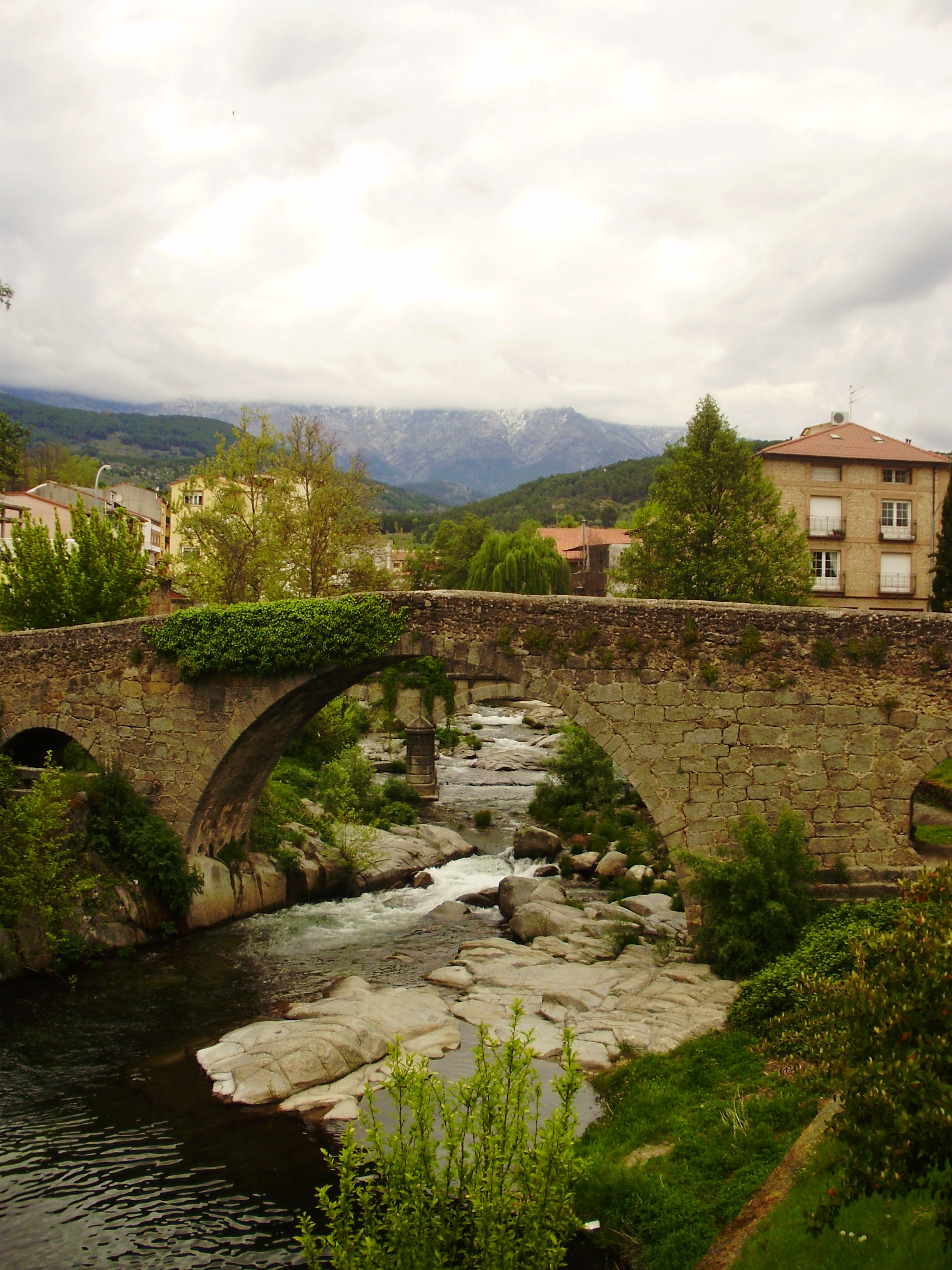 View of La Mosquera Palace, Arenas de San Pedrio, Ávila, Castile and León